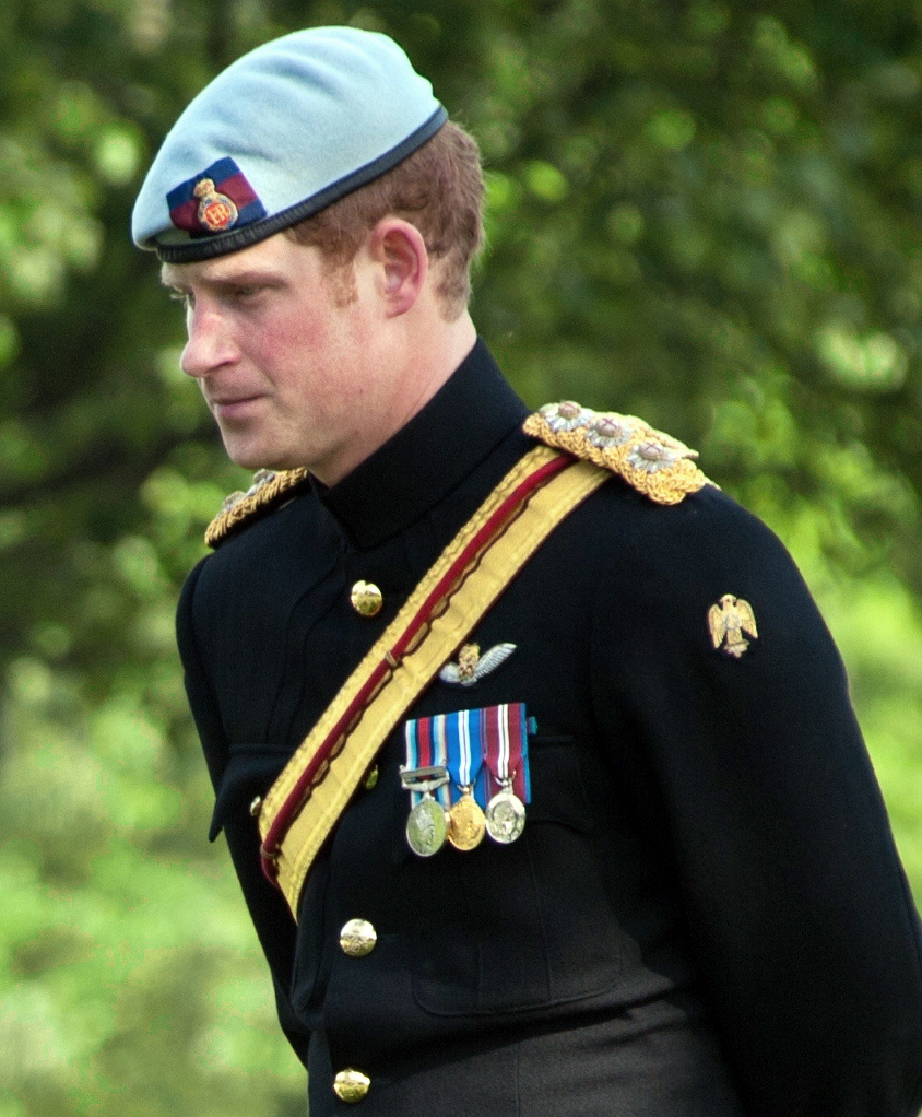 Prince Harry visits the Arlington National Cemetery